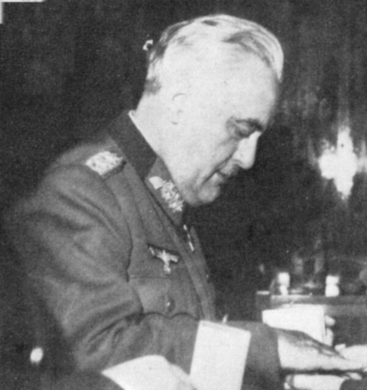 Edmund Glaise von Horstenau in Zagreb in 1944.